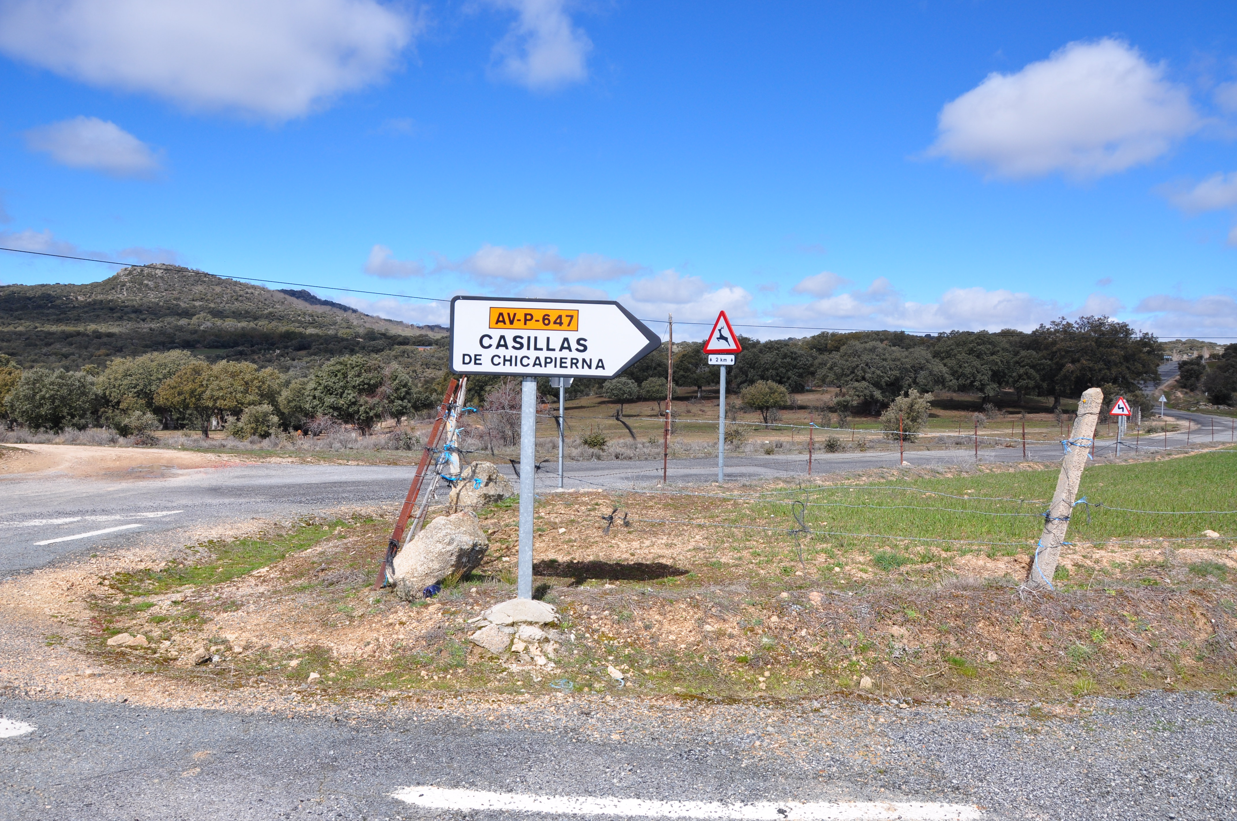 Road sign of the Diputación de Ávila, Spain